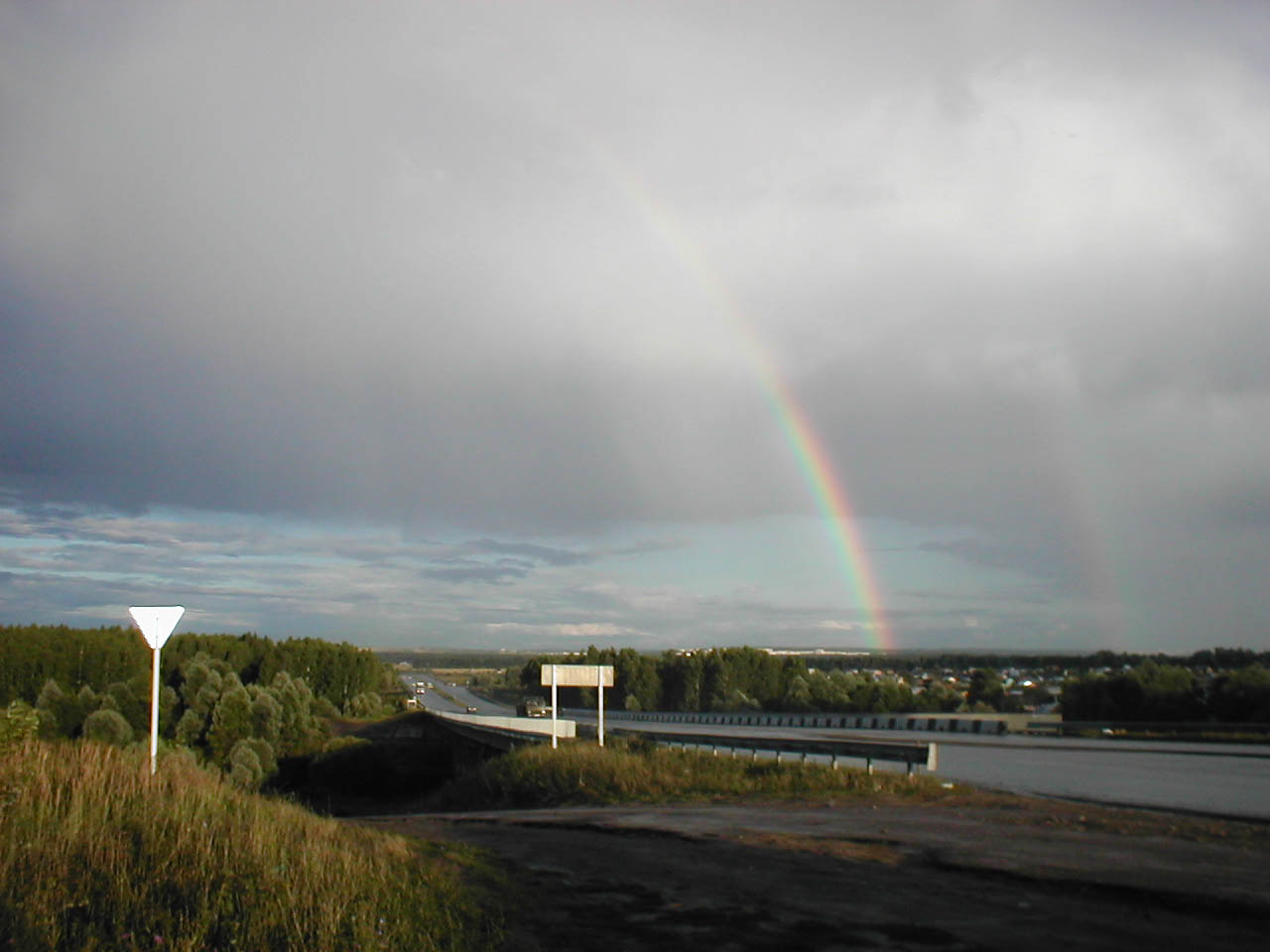 Kazan Obyezdnaya and M7 road at Kazanka river bridge